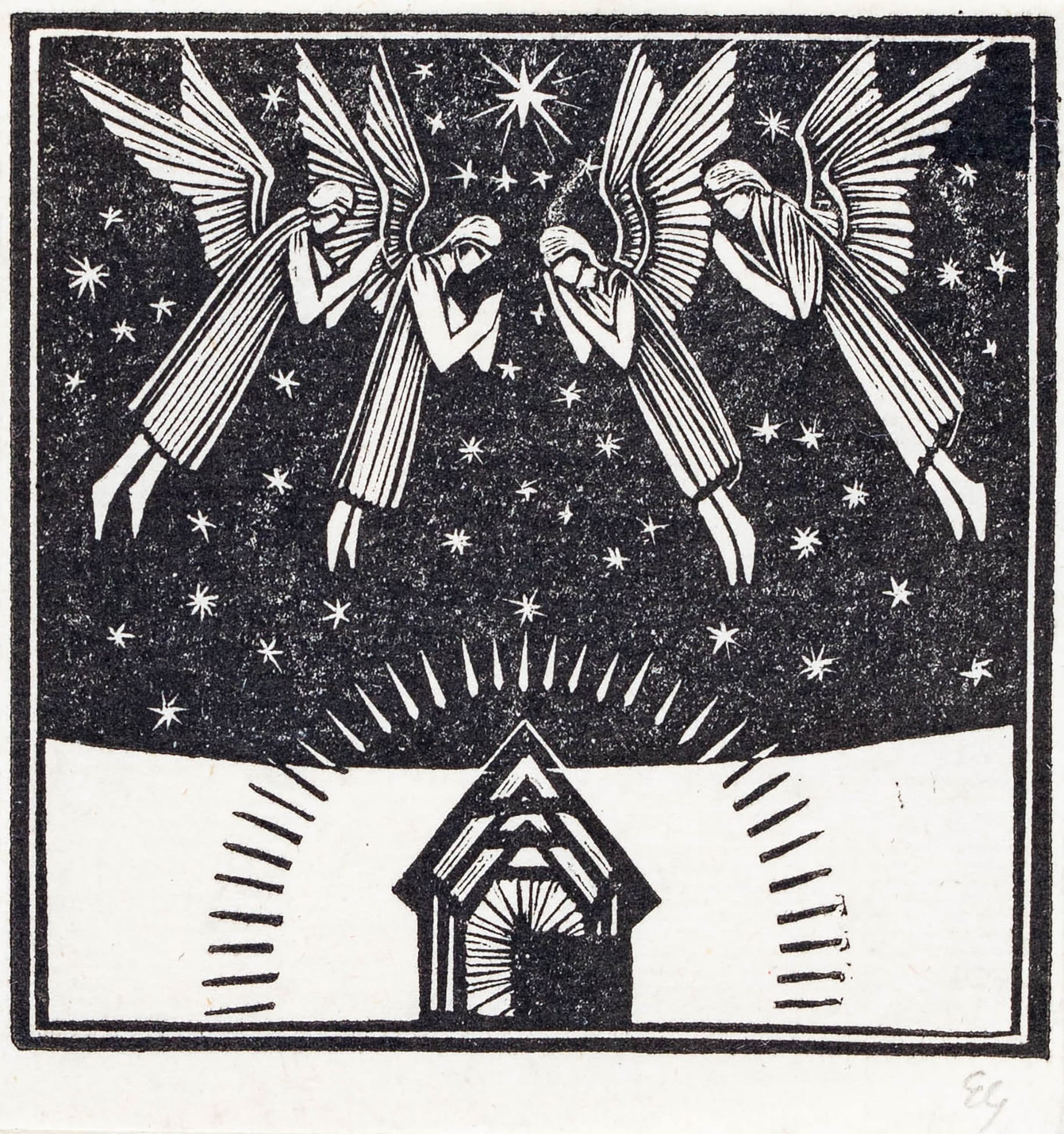 Offered for sale by Abbott and Holder in December 2019, when it was described as "GILL Eric (1882-1940) ‘Cantet Nunc Lo’ (P.75). Wood engraving. 1916. Proof. Signed. Given to his Chaplain Dr Flood by Gill. 2x2 inches.". See also copy in the British Museum; copy in The Tate; copy in the V&A